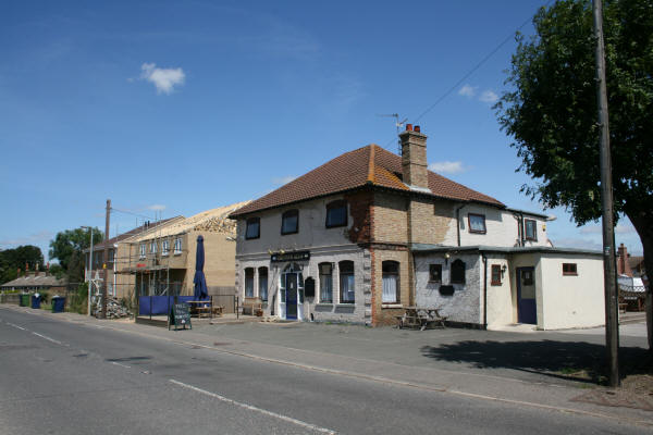 Benwick